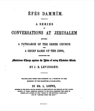 Book Efés Dammîm in English- Translation and printing in 1884. The author of the original book in Hebrew is Isaac Baer Levinsohn